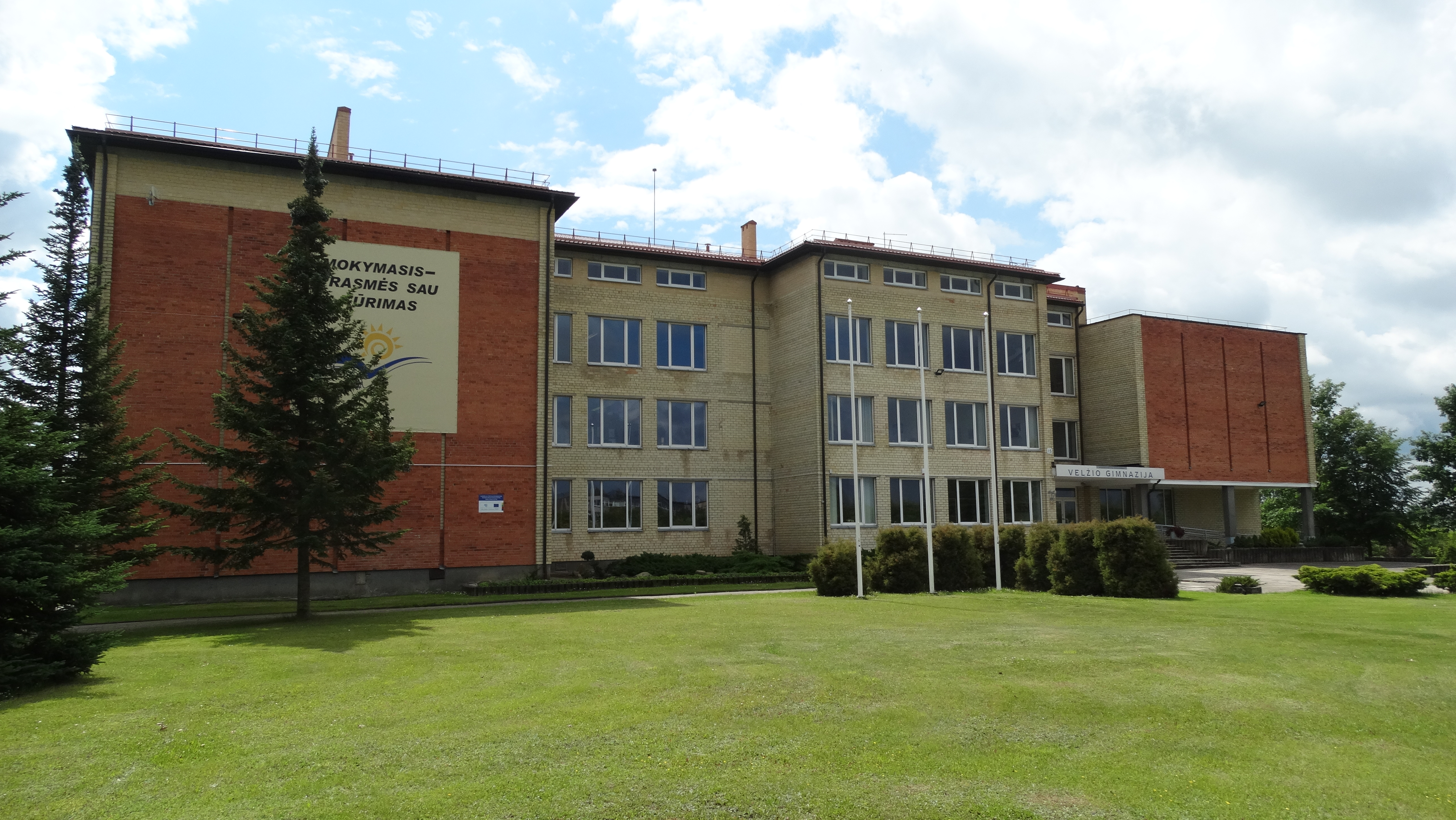 Gymnasium, Velžys, Panevėžys District, Lithuania